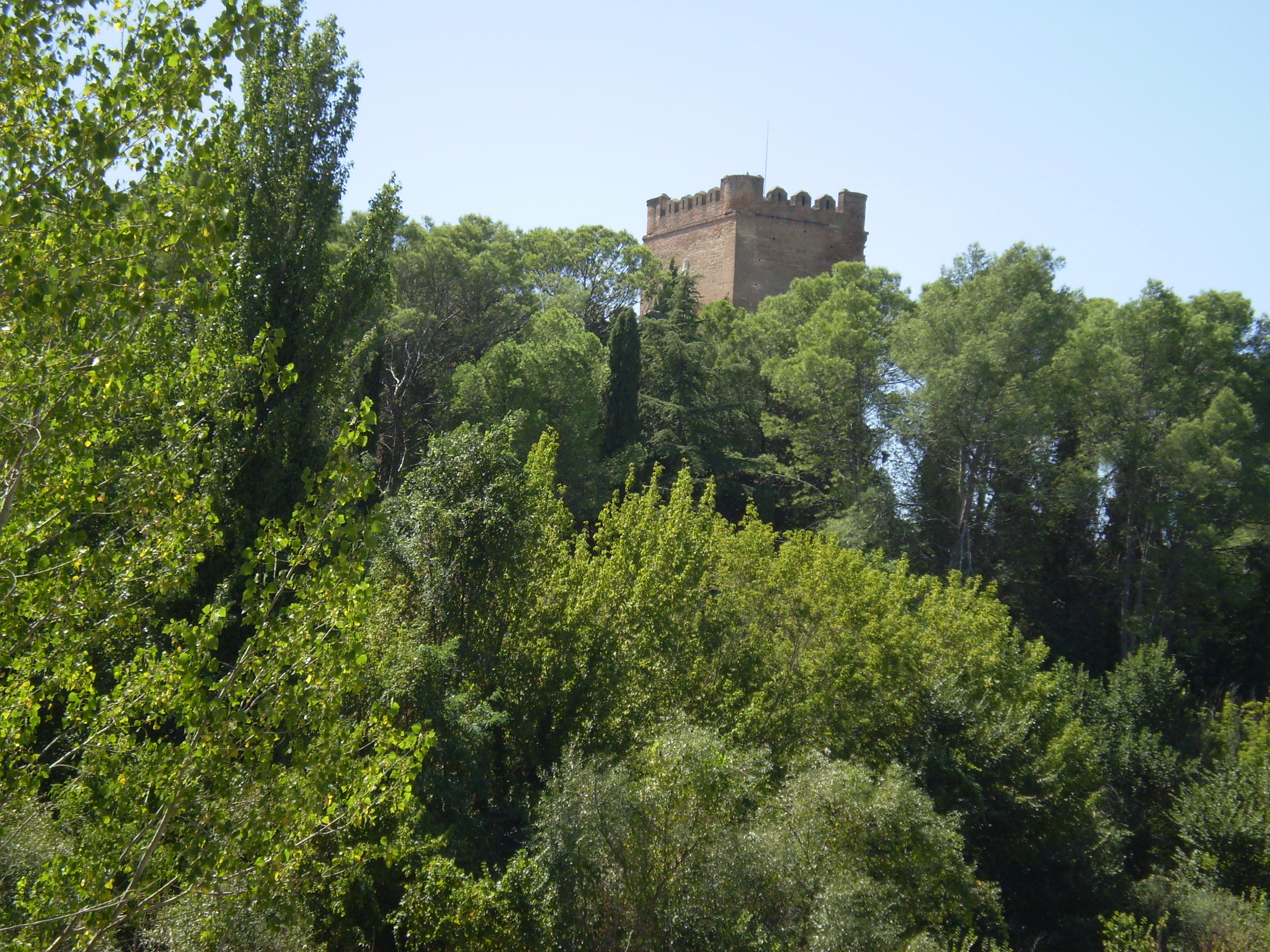 Castle of Batres, Community of Madrid, Spain